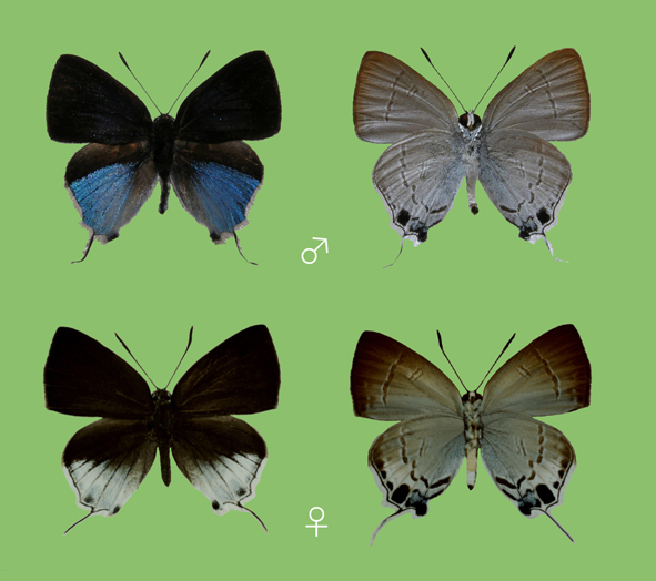 Sinthusa makikoae, male and female